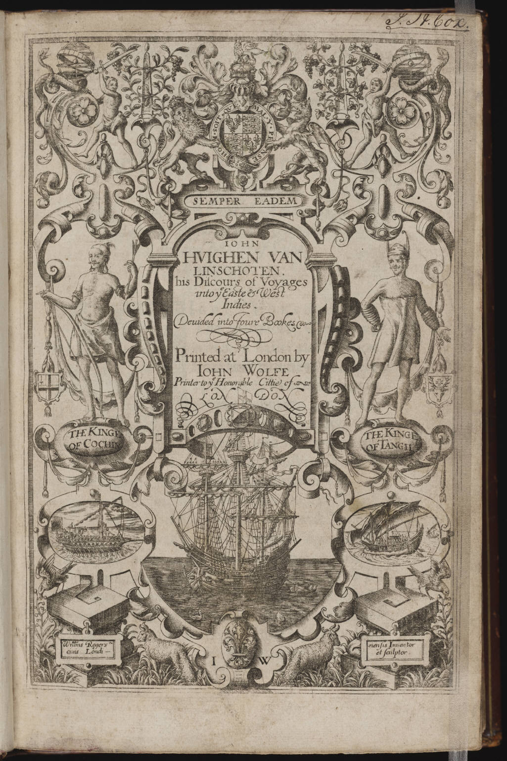 "Iohn Huighen van Linschoten, his Discours of Voyages into ye Easte & West Indies," title page, engraved by the English engraver William Rogers. The elaborately engraved page features depictions of 'The Kinge of Cochin' (Goa, India), as well as the 'Kinge of Tangil,' modern-day Alagoas, Brazil, as well as ships and animals. The page is signed " Willms Rogers ciuis Londinensis inuentor et sculptor." Courtesy of the General Collection, Beinecke Rare Book and Manuscript Library, Yale University, New Haven, Connecticut.